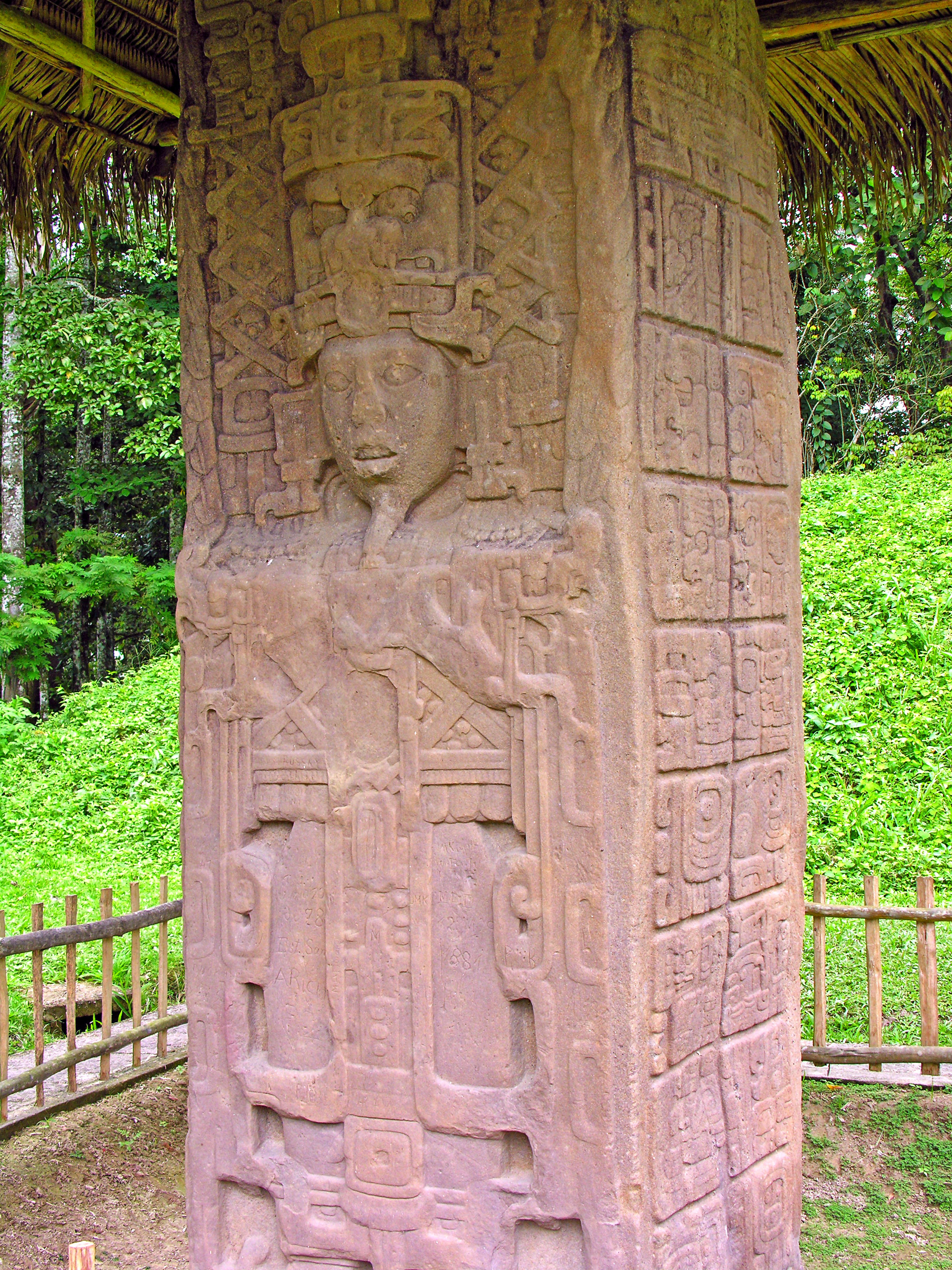 Stela A is a frontal portrait of Cauac Sky. Inscriptions on the side of the stela includes a phrase referring to Quirigua's greatest ruler, Cauac Sky, in his fifth katun of life (between 79- and 98 years old) when this monument was carved.